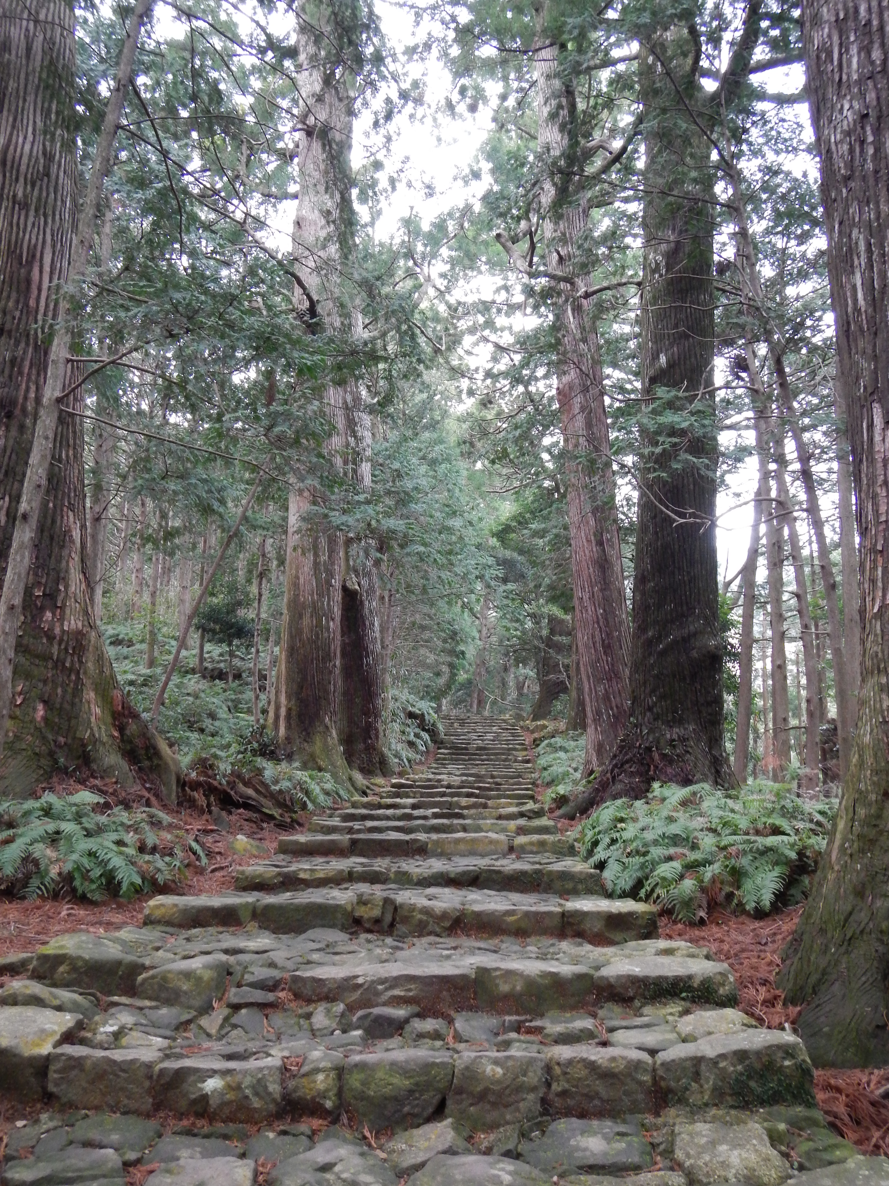 Kumano Kodo pilgrimage route Daimon-zaka World heritage 熊野古道 大門坂